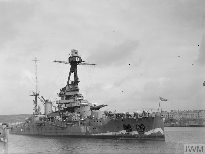 The battleship Paris leaving Devonport